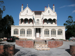 JBC Miles's Gothic mansion Ambleside in Queen St, Ashfield. Until recently, it was Our Lady of Snows convent. It is currently being renovated as a private home.